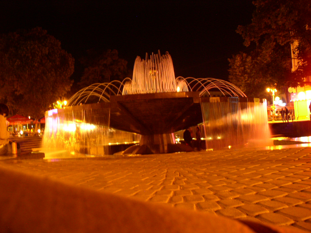 Ivano-Frankivsk, Ukraine at night.